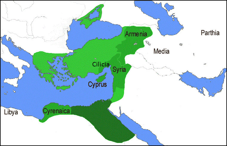 Map of the Donations of Alexandria in 34 BC. The darkest green shows Cleopatra's original kingdom of Egypt. The paler green shows former Roman areas that Antony donated to Cleopatra and her children. Cyprus was added to Egypt, which was to be ruled by Cleopatra and Caesarion. The rest was divided into three other kingdoms: for Antony's son Alexander Helios, Armenia (and, nominally, Media and Parthia, which Antony planned to conquer); for his daughter Cleopatra Selene, Cyrenaica (and, nominally, Libya, which was controlled by Octavian); and for his younger son Ptolemy Philadelphus, Syria, including Phoenicia (on the Syrian coast) and Cilicia (on the coast of Anatolia). The palest green indicates Antony's other Roman territories that were not donated.